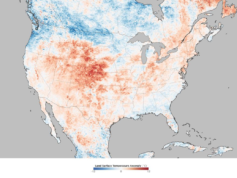 Map of land surface temperature anomalies for June 17–24, 2012, Based on data from the Moderate Resolution Imaging Spectroradiometer (MODIS) on NASA’s Terra satellite, the map depicts temperatures compared to the 2000–2011 average for the same eight day period in June.